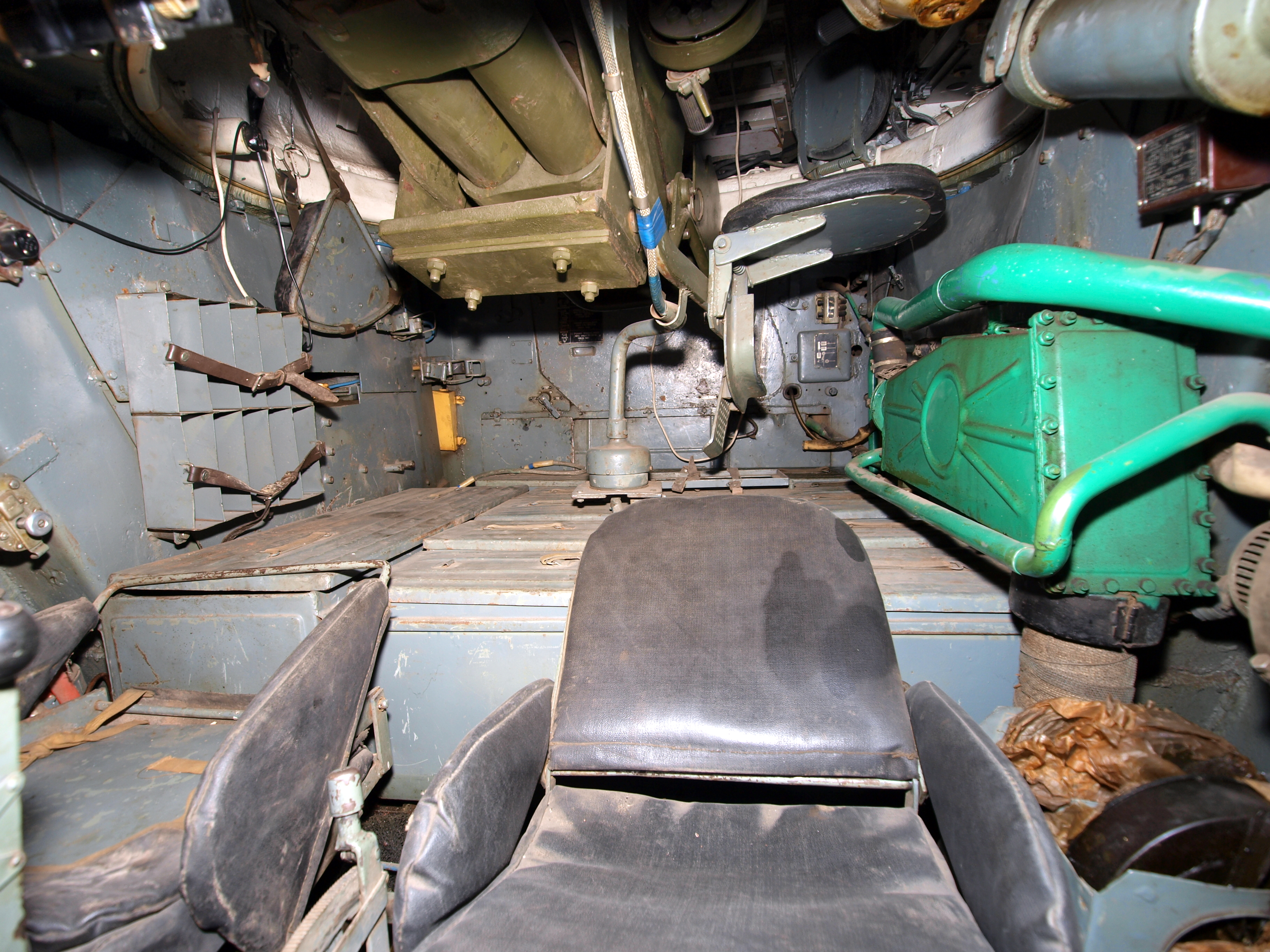 Photographed at the Marshallmuseum - Liberty Park - Oorlogsmuseum Overloon, The Netherlands.